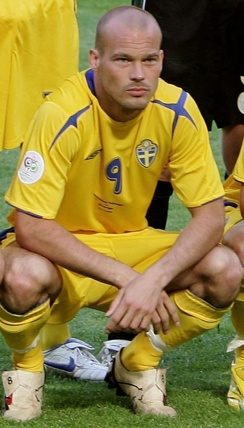 Fredrik Ljungberg (Swedish national football team) before the FIFA World Cup match against Trinidad and Tobago on June 10, 2006